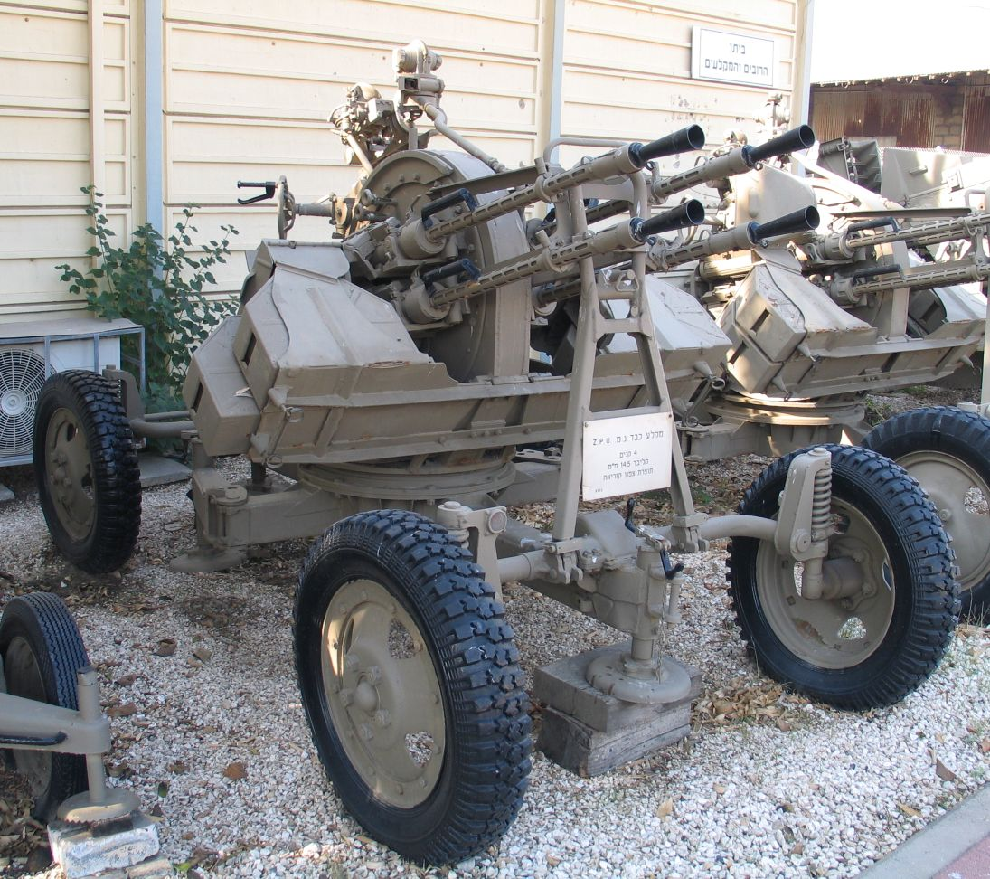 Description: Soviet ZPU-4 quadruple 14.5 mm air defence cannon in Batey ha-Osef Museum, Tel Aviv, Israel. Source: Photo by me, User:Bukvoed.